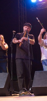 Ken LaCosse